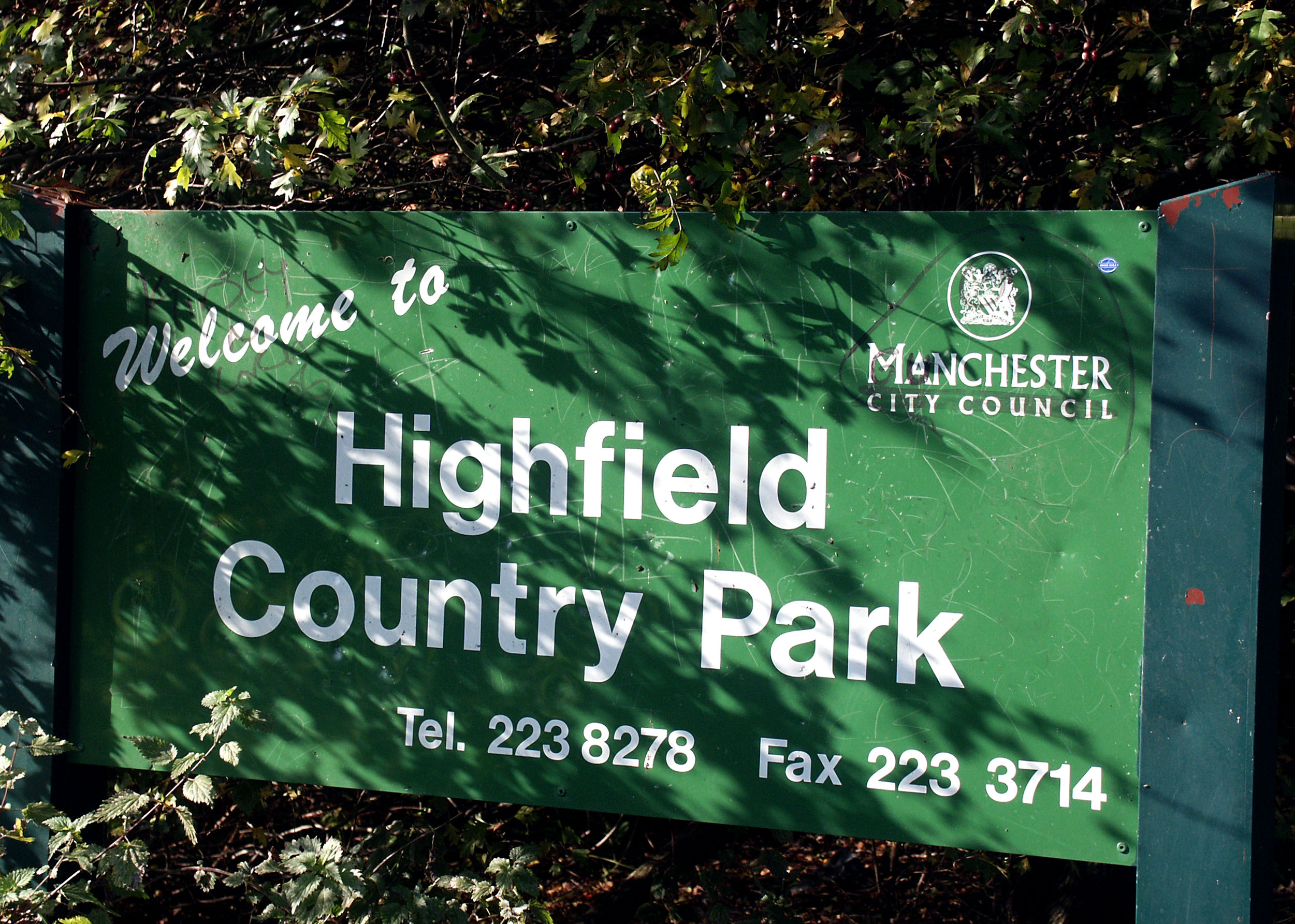 Sign leading to Highfield Country Park, Levenshulme, Greater Manchester.